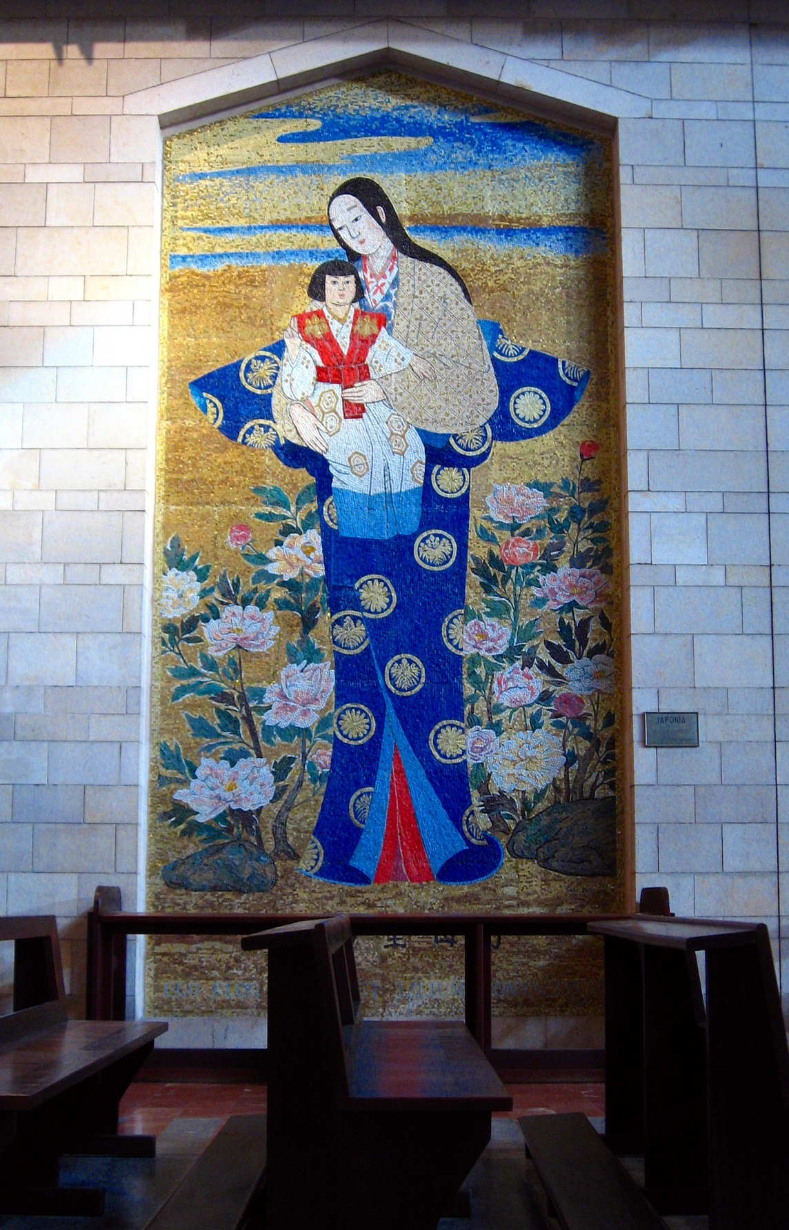 Japanese mosaic of Madonna and Child, in the upper level chapel of the Church of the Annunciation, Nazareth, Israel. The icon is a gift from Japanese Catholics to the church, alongside other Madonnas from different nations. The Mosaic wall was created by "F.M. Mural Group" with Harada, Miyauchi, Furukawa and others, the students of Roka Hasegawa, after his sudden death in Italy, 1967 for the honor of his drawing of Japanese Madonna.